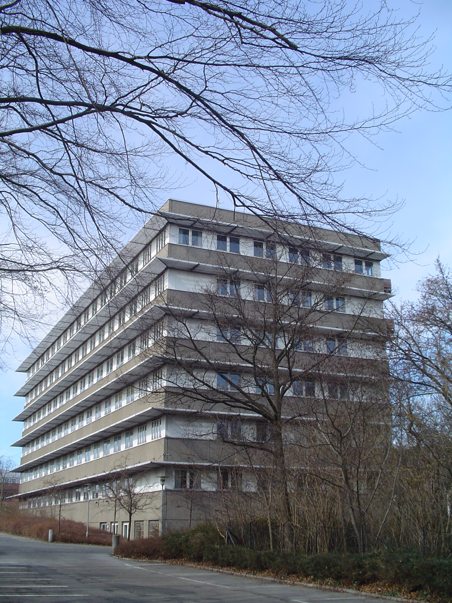 University of Copenhagen August Krogh Institute. Taken by me on 26/3-2005.